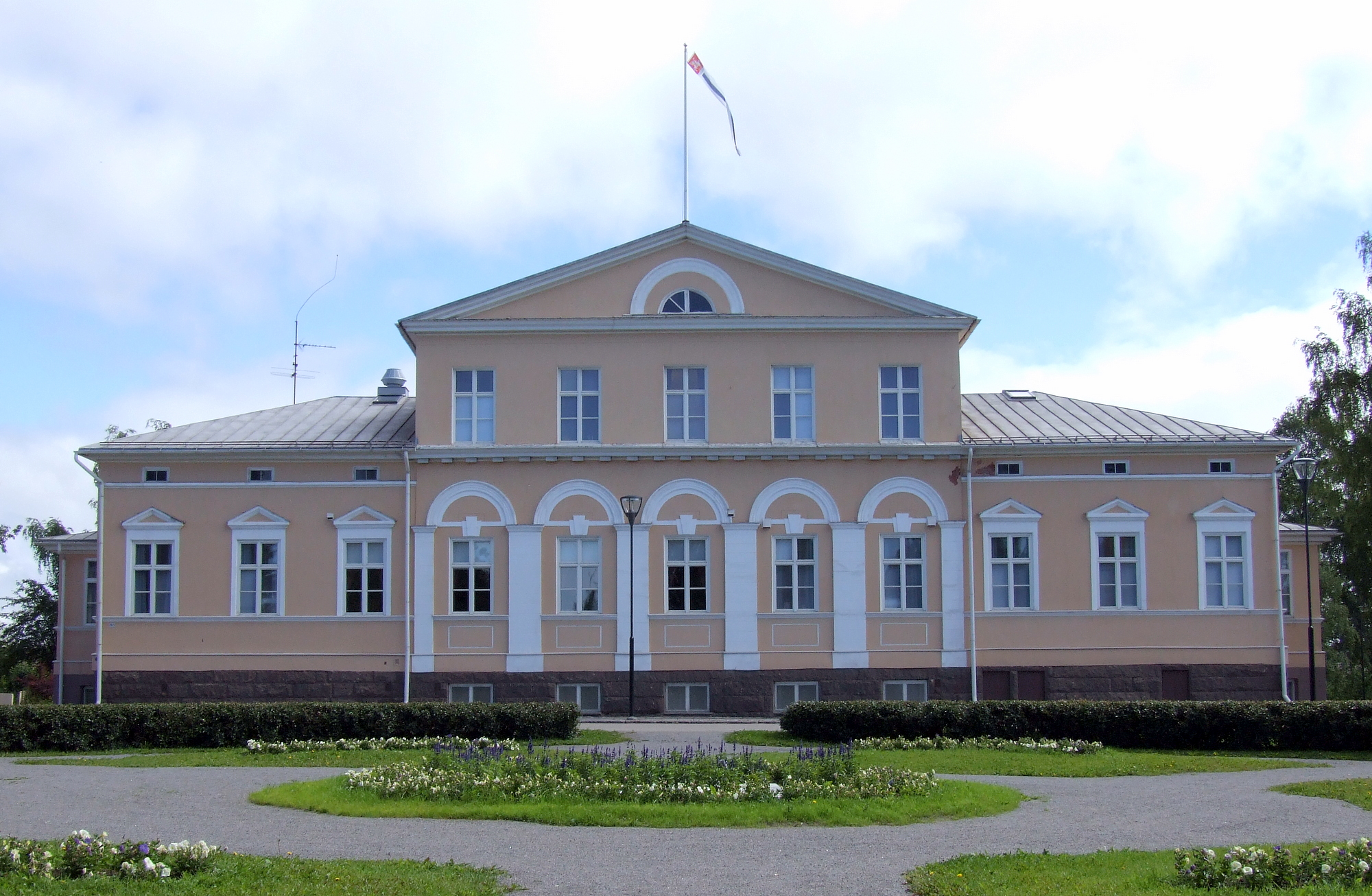 The townhall of Raahe, Finland. It was built in 1839 and designed by architect A.F. Granstedt